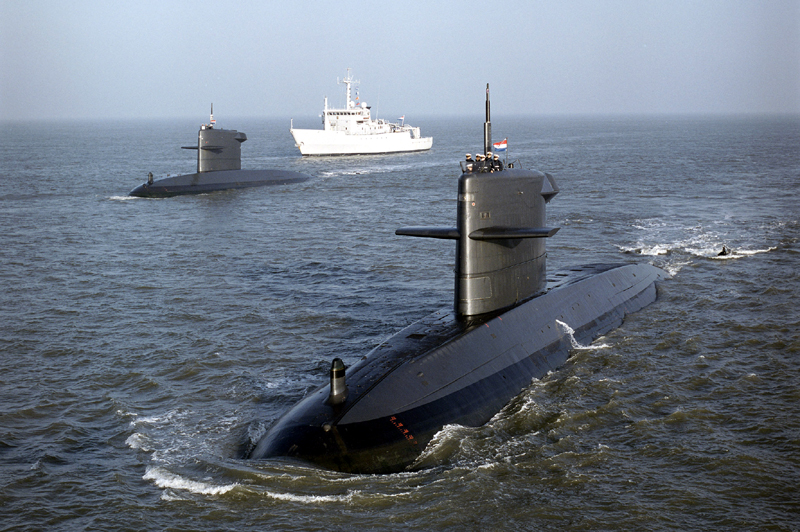 Two Dutch Walrus-class submarines